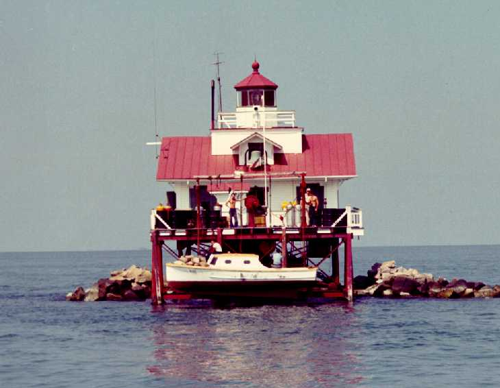 Undated United States Coast Guard photograph of Tangier Sound Light